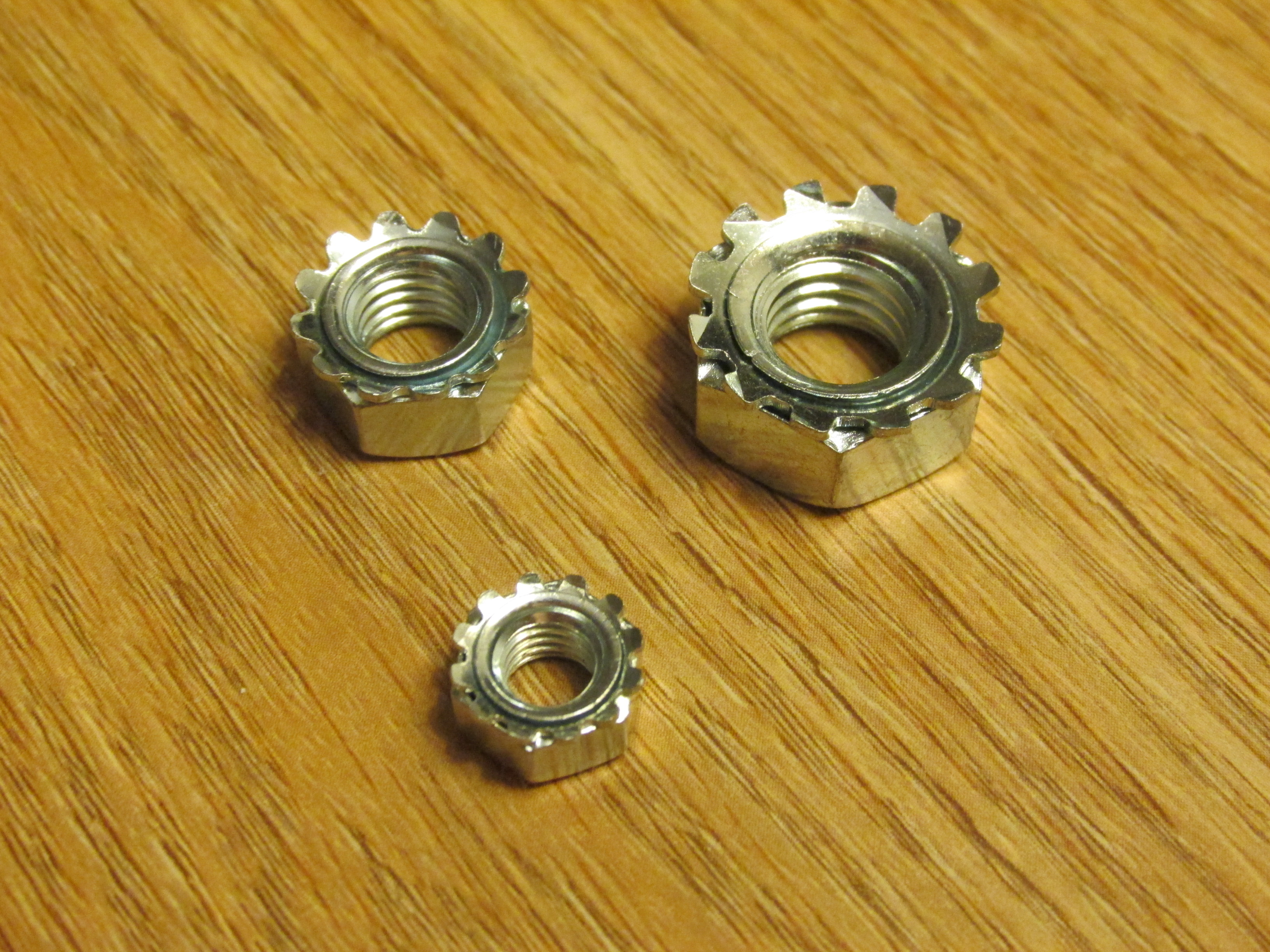 Keps nuts from Ace Hardware, Concord Massachusetts - 2014